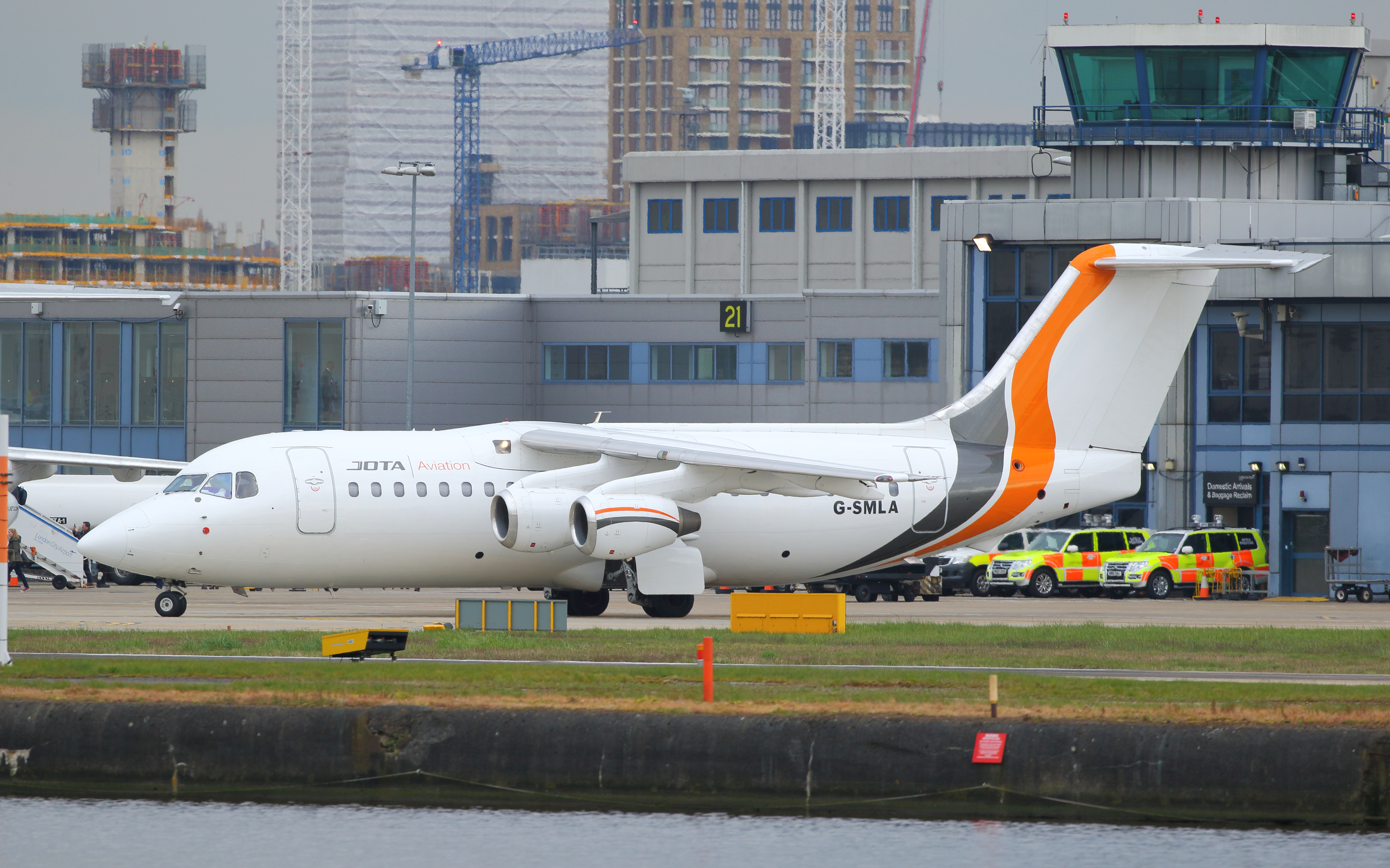 London City Airport 08.04.16